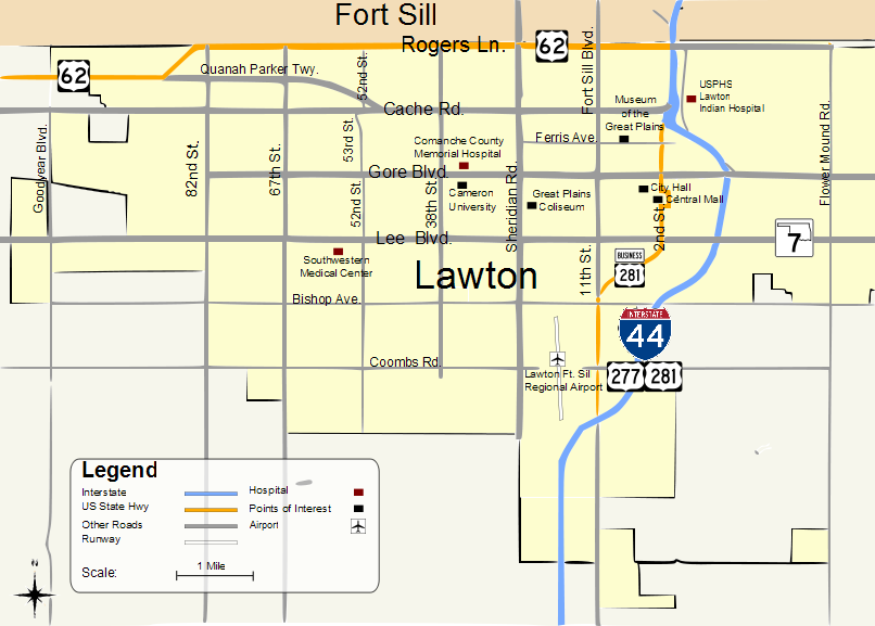 A general map of the city of Lawton, OK.